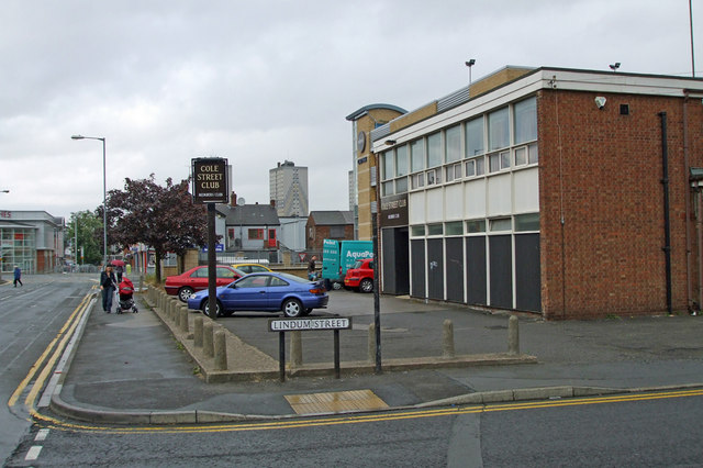 The Cole Street Club, Scunthorpe The Cole Street Club is situated on the corner of Cole Street and Lindum Street.